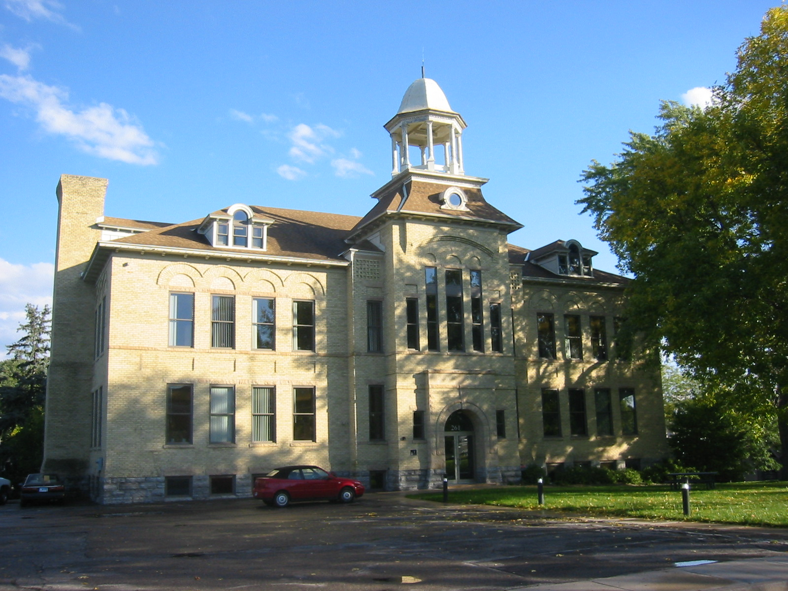 Excelsior Public School (Excelsior, Minnesota)